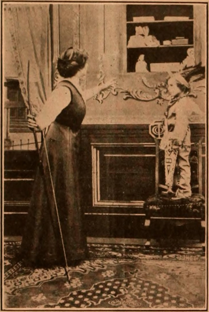 A film still from The Lucky Shot, a 1910 Thanhouser Company film.